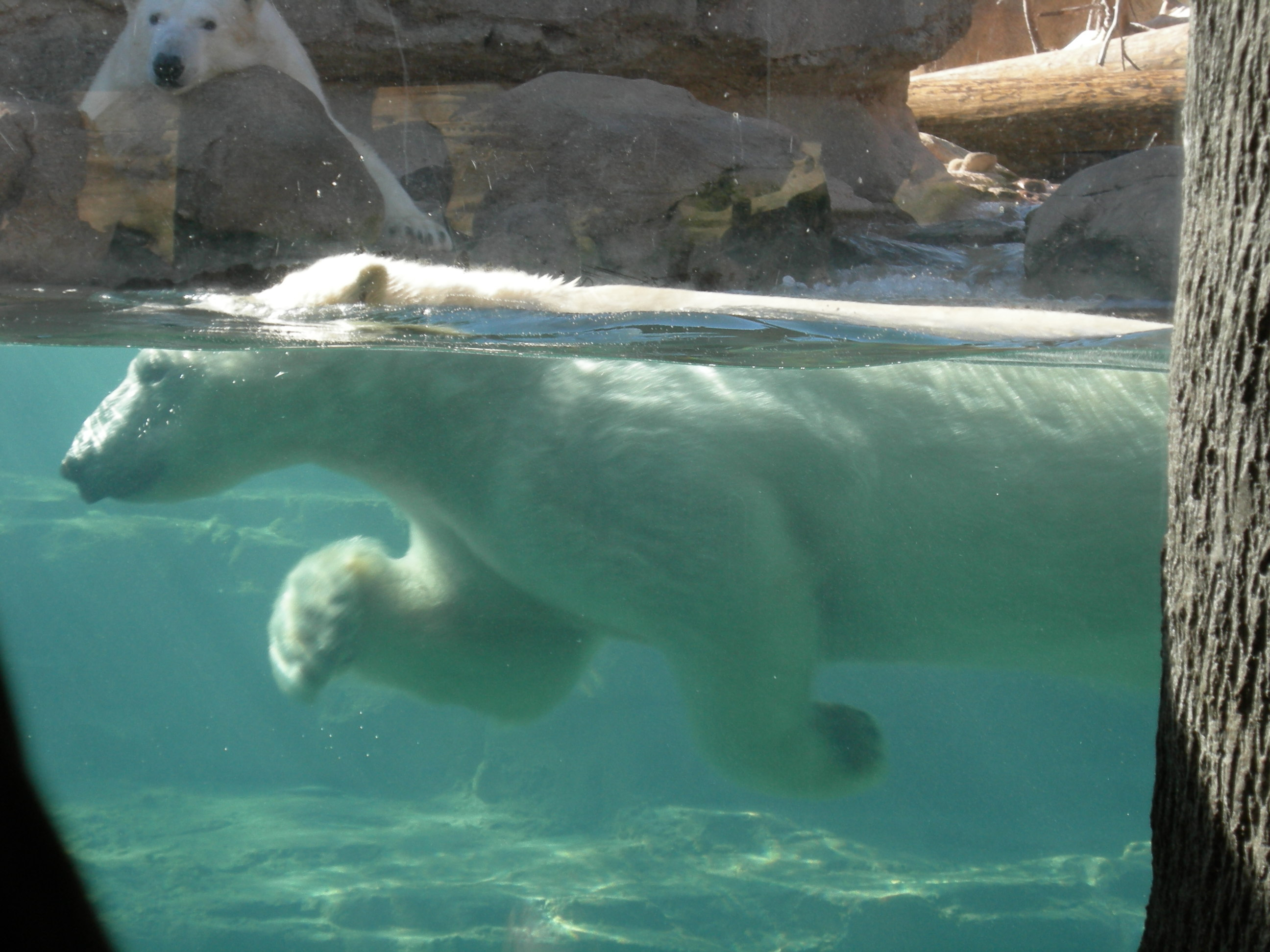 at the Memphis Zoo